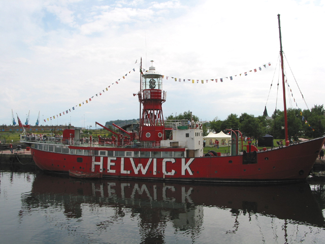 Lightship 2000 viewed from the deck of HMS York